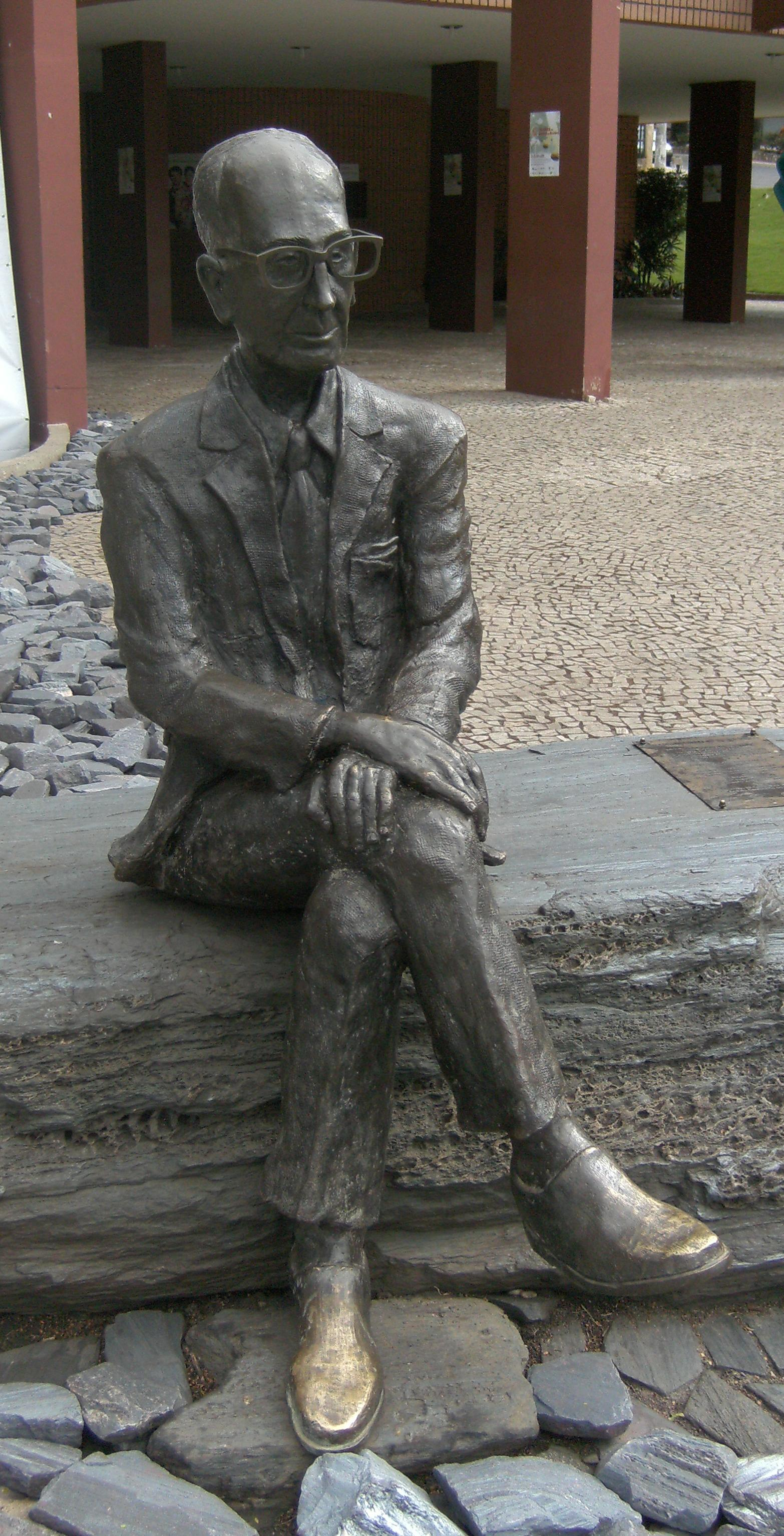 Statue of brazilian poet Carlos Drummond de Andrade, in front of Associação Cultural in Itabira, Minas Gerais, where he was born.